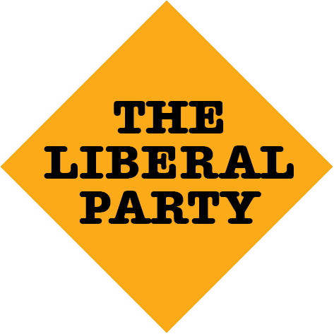 Logo of the Liberal Party (pre 1988)